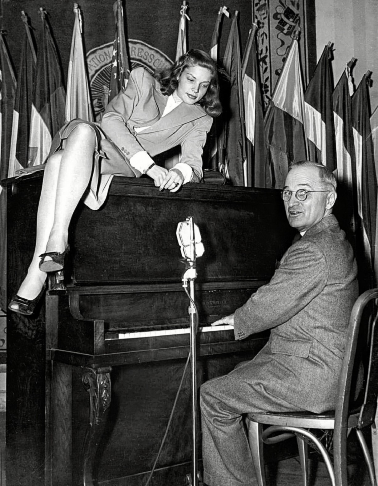 Photograph of Lauren Bacall on top of the piano while Vice President Harry S. Truman plays at the National Press Club Canteen.